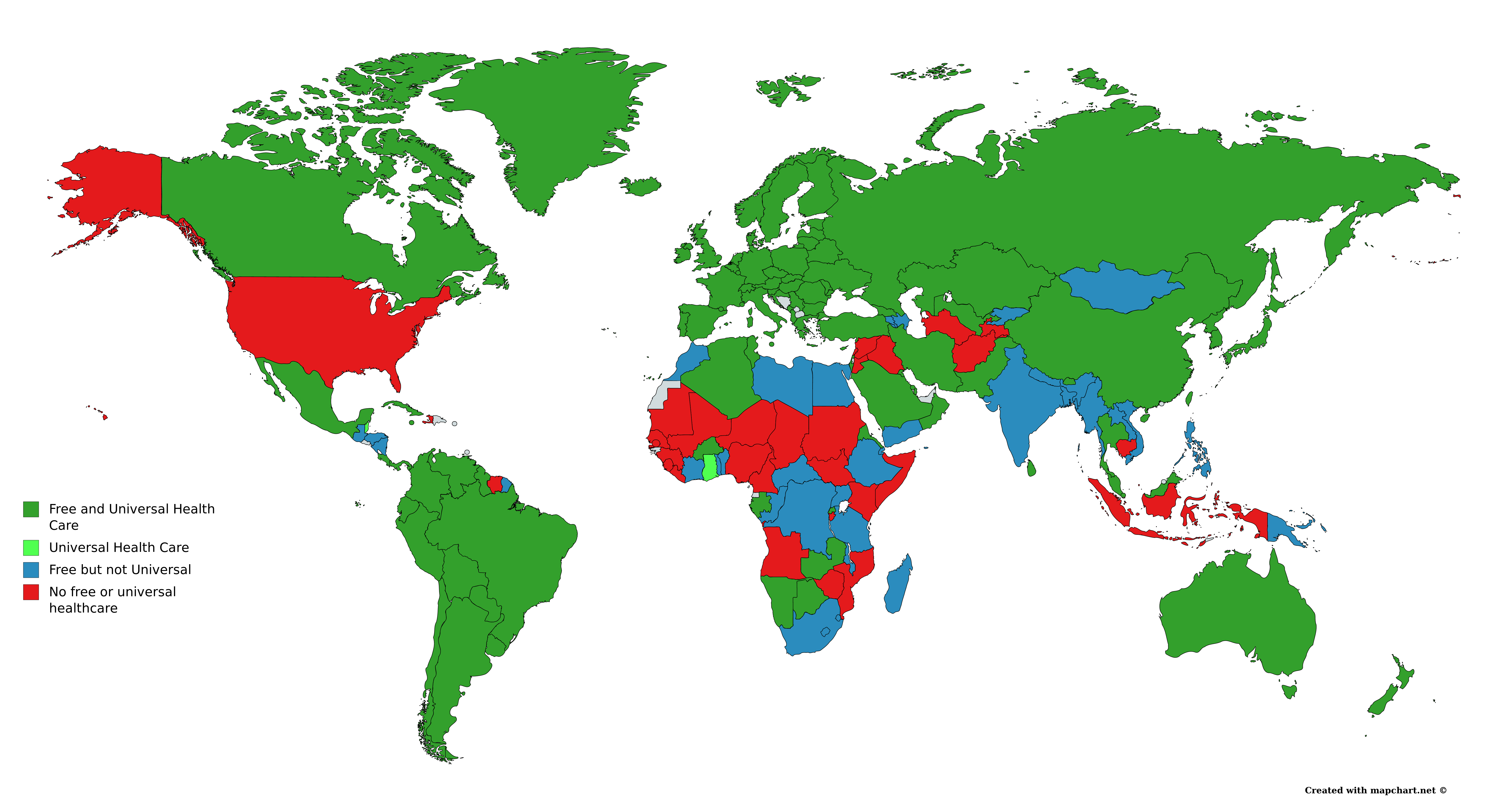 World map of universal health care from the list on wikipedia (english)